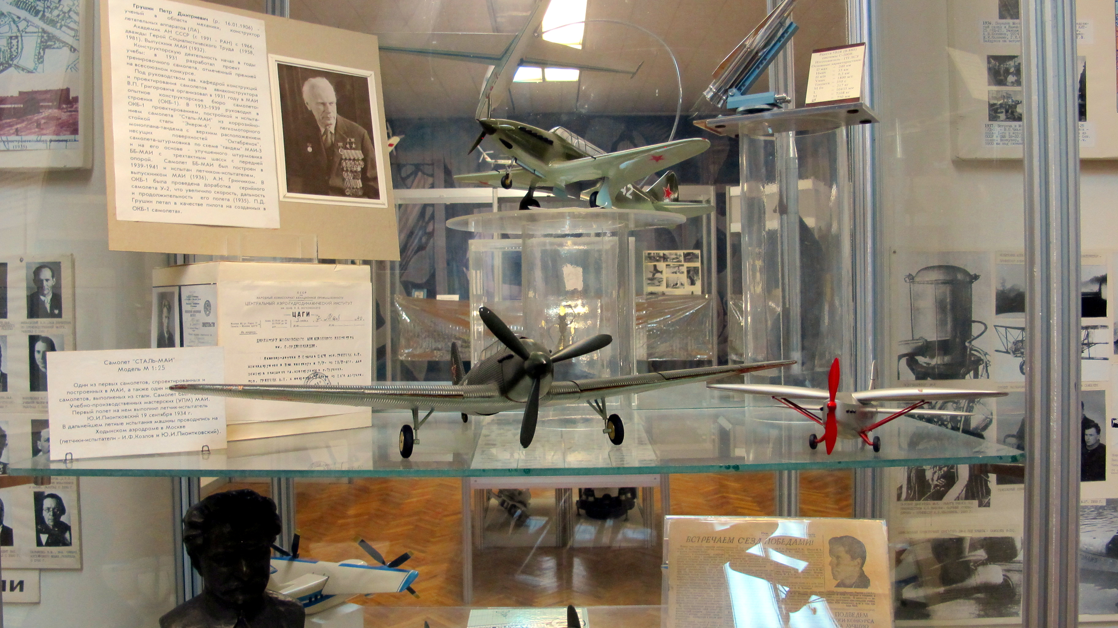 Wikitrip to MAI museum 2016-02-02